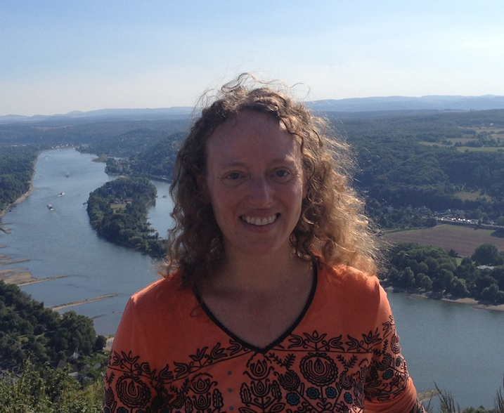 prof. Tamar Ziegler, Hebrew University of Jerusalem Drachenfels, Germany